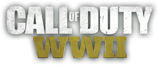 Logo of the video game Call of Duty: WWII.